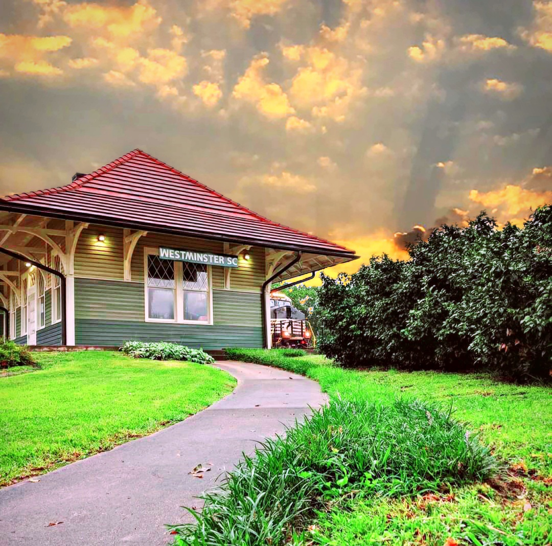 Southern Railways historic passenger depot located in Westminster South Carolina